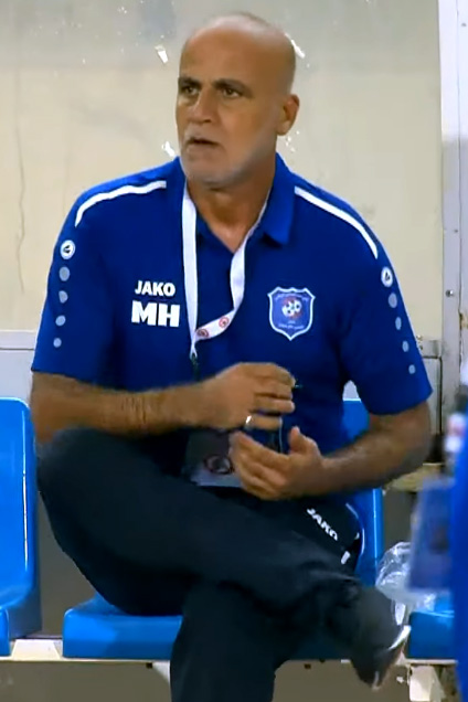 Mahmoud Hammoud coaching Shabab Sahel at the 2019 Lebanese Elite Cup Final against Ansar